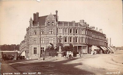 Picture of New Barnet prior to 1914